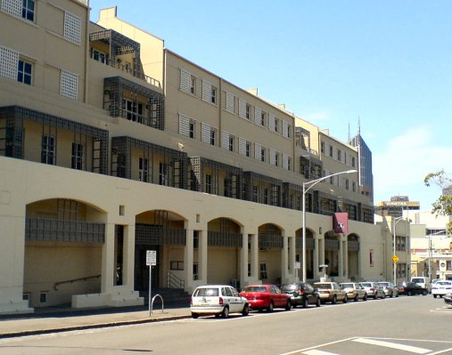 Photograph of Melbourne Business School building entrance